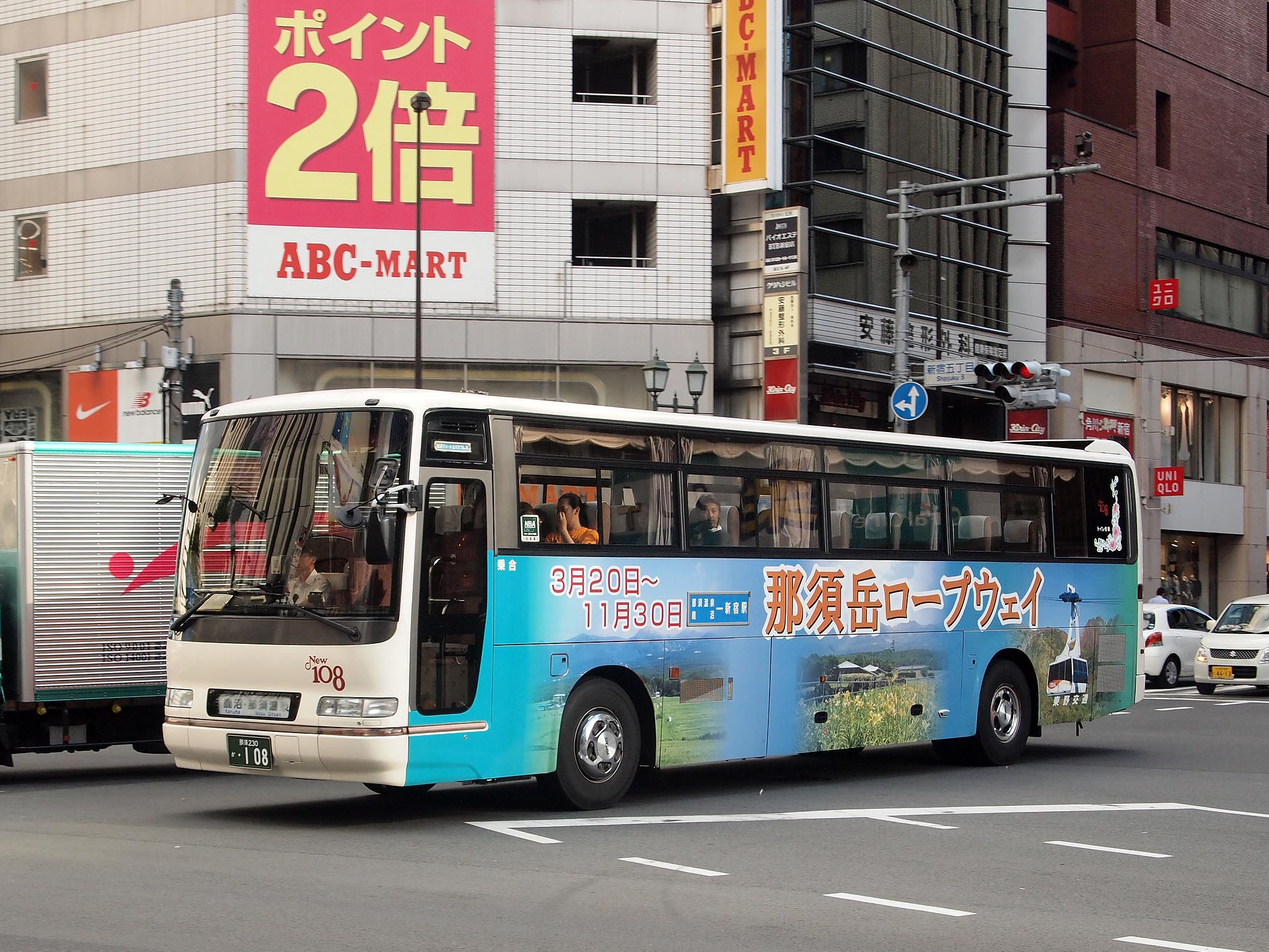 Fleet of Toya Kotsu, advertisement of "Mt. Nasu Tramway" for "Nasu Shiobara Resort Express" fleet. Model: Hiino Selega FD KC-RU3FSCB License plate:TGN230 KA-108 Place: Shinjjuku, Shinjuku Ward, Tokyo Japan